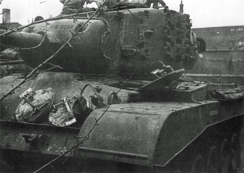 Photograph shows the first M26 Pershing tank (still designated as T26E3) to be knocked out in combat in World War II, which occurred on its second day in action. The hole in the gun mantlet marks the penetration of an 88mm round from a German Tiger I. Two crew members were killed. The action occurred on February 26, 1945. The T26E3 was knocked out in an ambush at Elsdorf while overwatching a roadblock. The action was described as follows: “Fireball, for that was the tank's name, was in a bad position, silhouetted in the darkness by a nearby fire. A Tiger, concealed behind the corner of a building only about 100 yards away, fired three shots - the first 88 mm projectile entered the turret through the co-axial machine gun port [the M26's gun mantlet], killing both the gunner and the loader instantly. The second shot hit the muzzle brake and the end of the 90 mm barrel and the resulting shock waves set off the round that was in the chamber. Even though this round finally cleared the end of the tube, it still caused the barrel to swell about halfway down. The third and final shot glanced off the righthand side of the turret and in doing so took away the upper cupola hatch which had been left open. But that was the end of the Tiger's run of luck. Hastily backing, to avoid retaliatory fire, it reversed into a large pile of debris and became so entangled that the crew finally had to abandon it.[1]” Tiger I tank that knocked out the M26 tank Fireball. The Tiger then backed into a rubble pile and became stuck. The crew abandoned the tank.